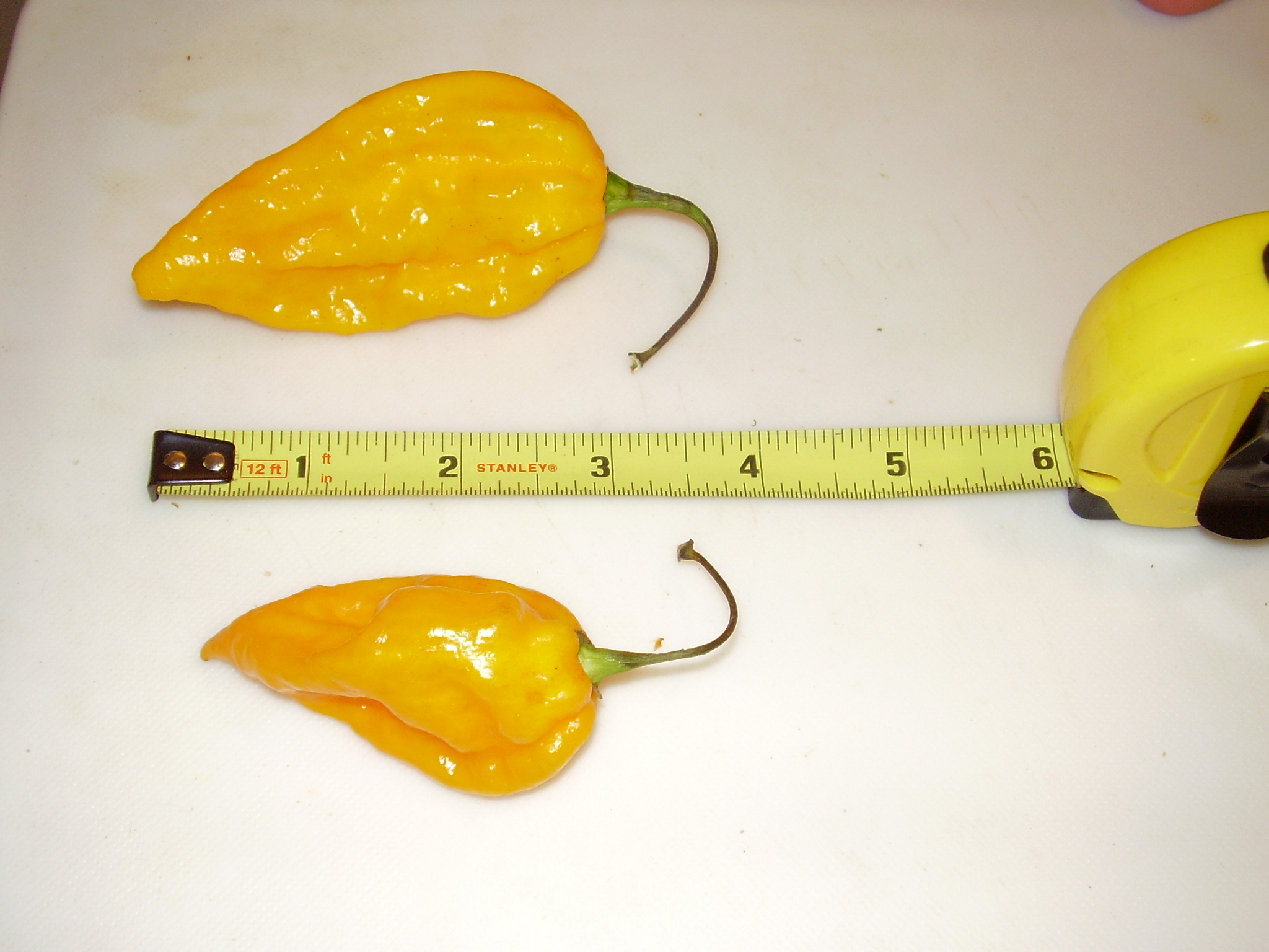 Fatalii peppers (Capsicum Chinense) with tape measure for scale.